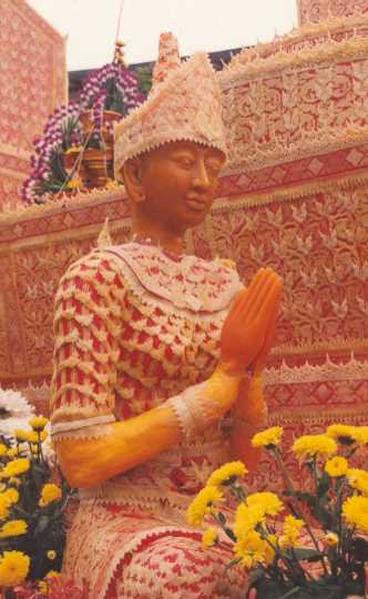 Figure on float at Ubon Candle Festival; picture taken by User: Markalexander100